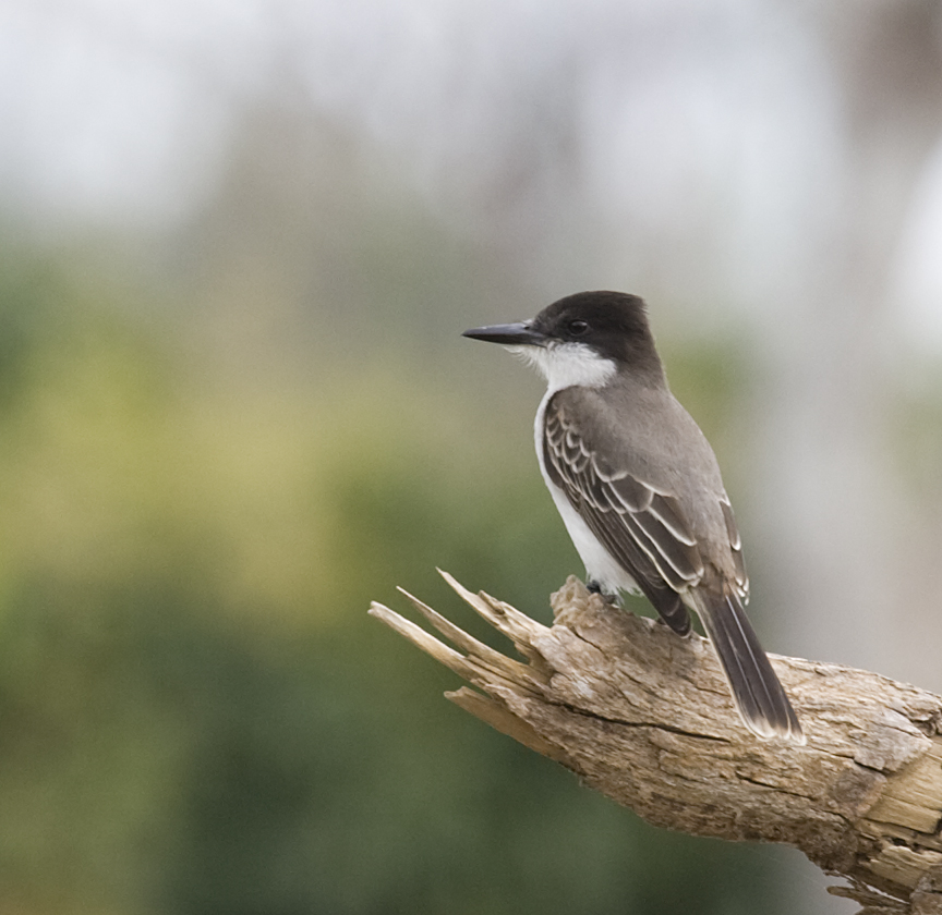 A Loggerhead Kingbird in Parque Nacional La Guira, Pinar del Rio Province, Cuba.